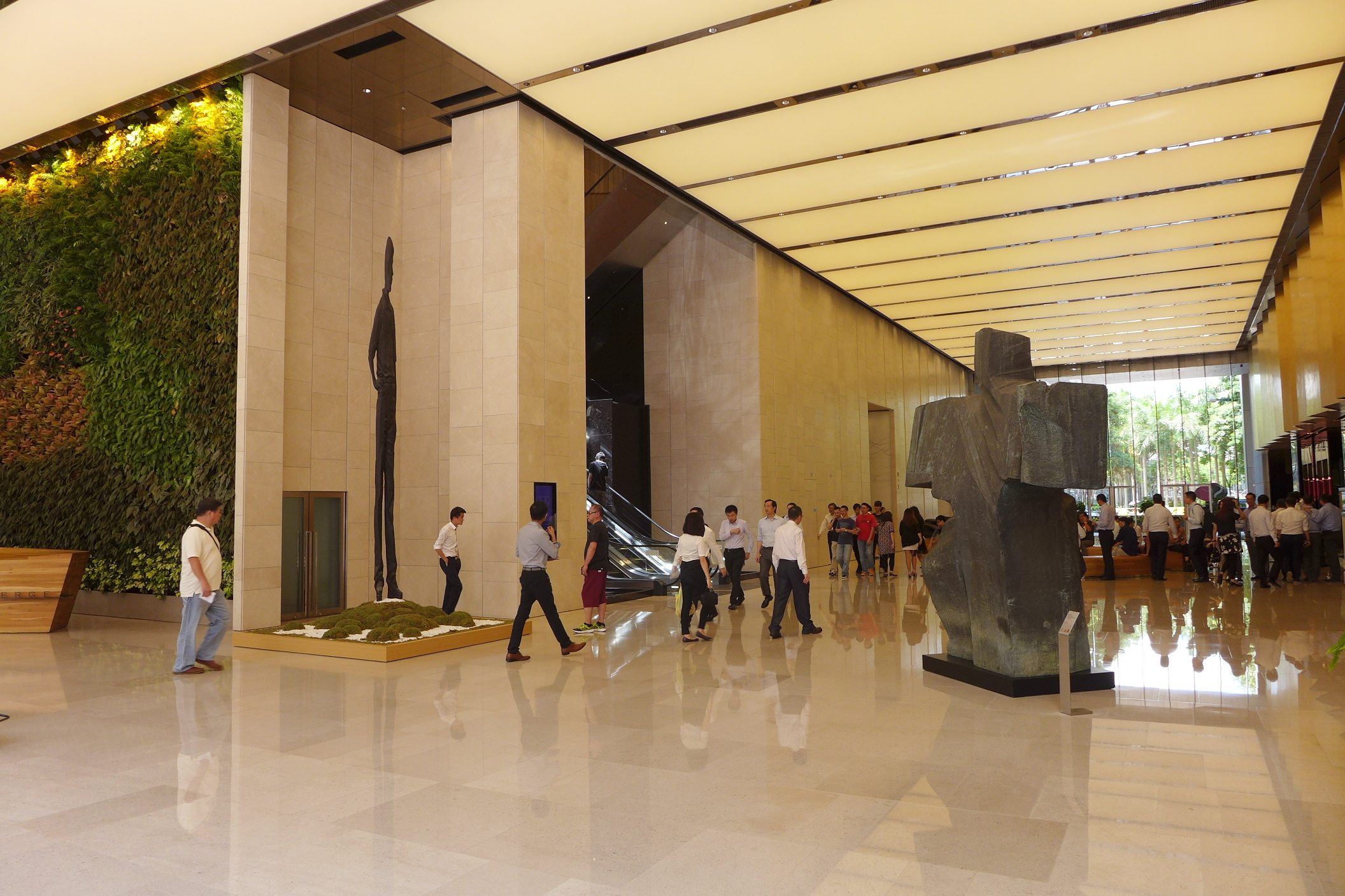 Kerry Centre (Hong Kong) The Ju Ming's sculpture "Tai Chi Series: Preparation for Underarm" was later moved to the new Kerry Hotel at Hung Hom Bay.